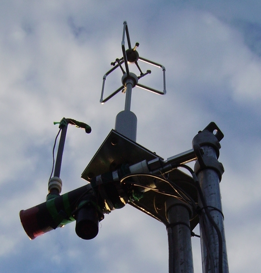 Semi open path eddy covariance system, consisting of an ultrasonic anemometer to measure 3D air flow and infrared gas analyser (IRGA) to measure carbon dioxide. This system is situated at the top of a 20 metre high tower above a forest.